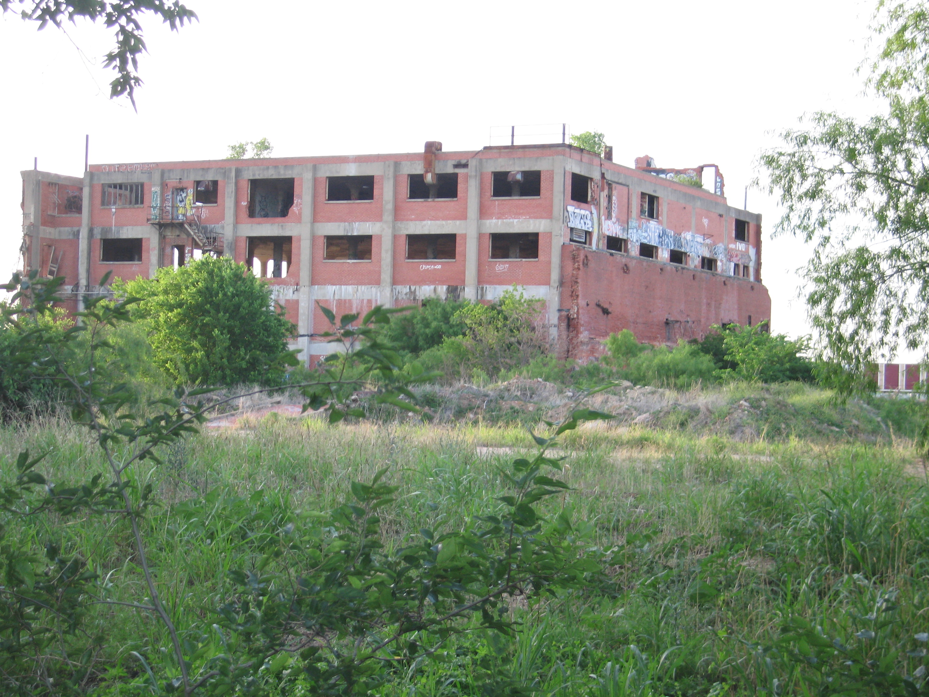 This is the former Killing Tank and Beef Cooler Building of the Swift and Company packing plant in Fort Worth. This building was demolished in July 2016.